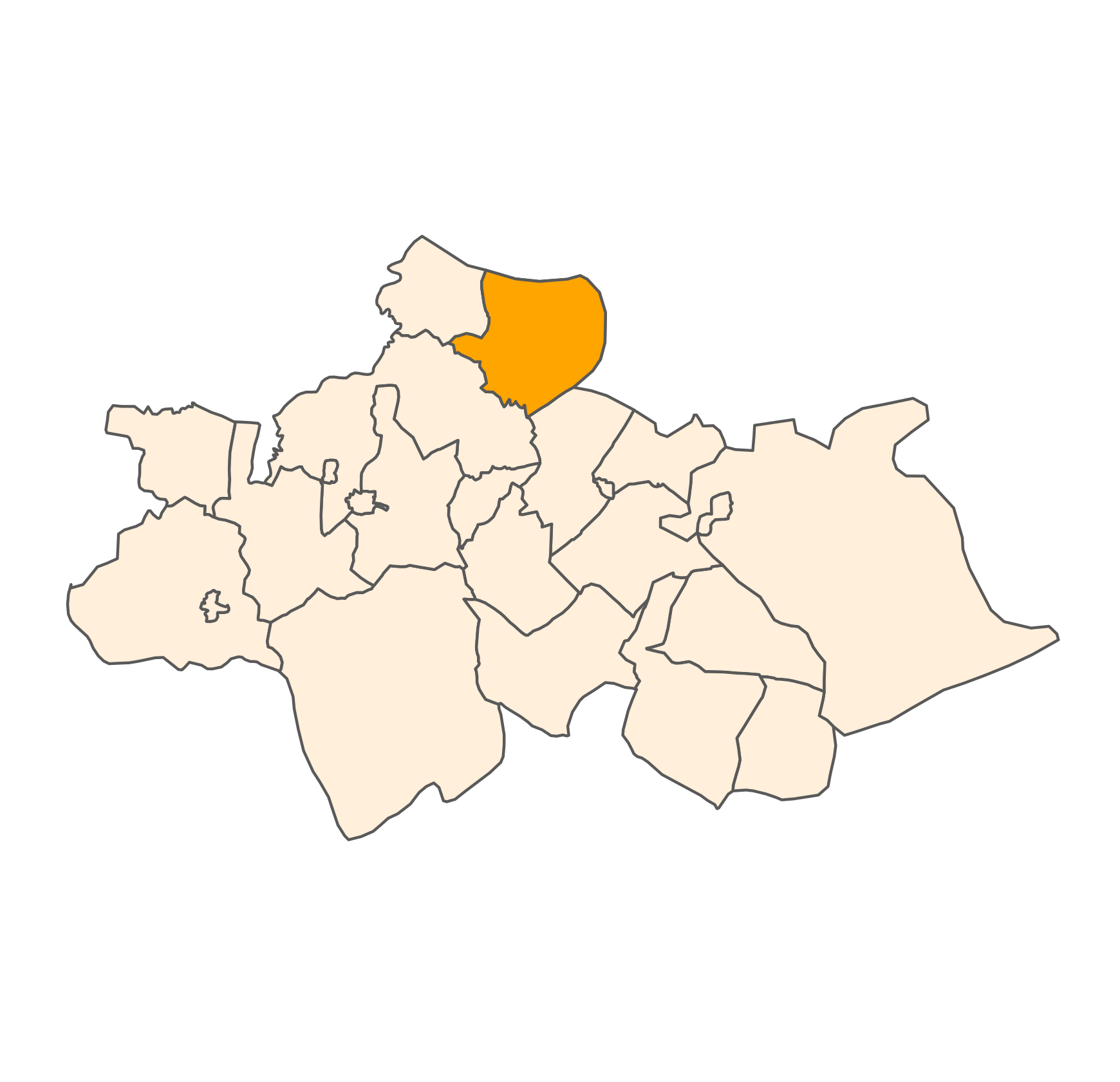 Commune (Orange), Sefrou Province (Antique White)